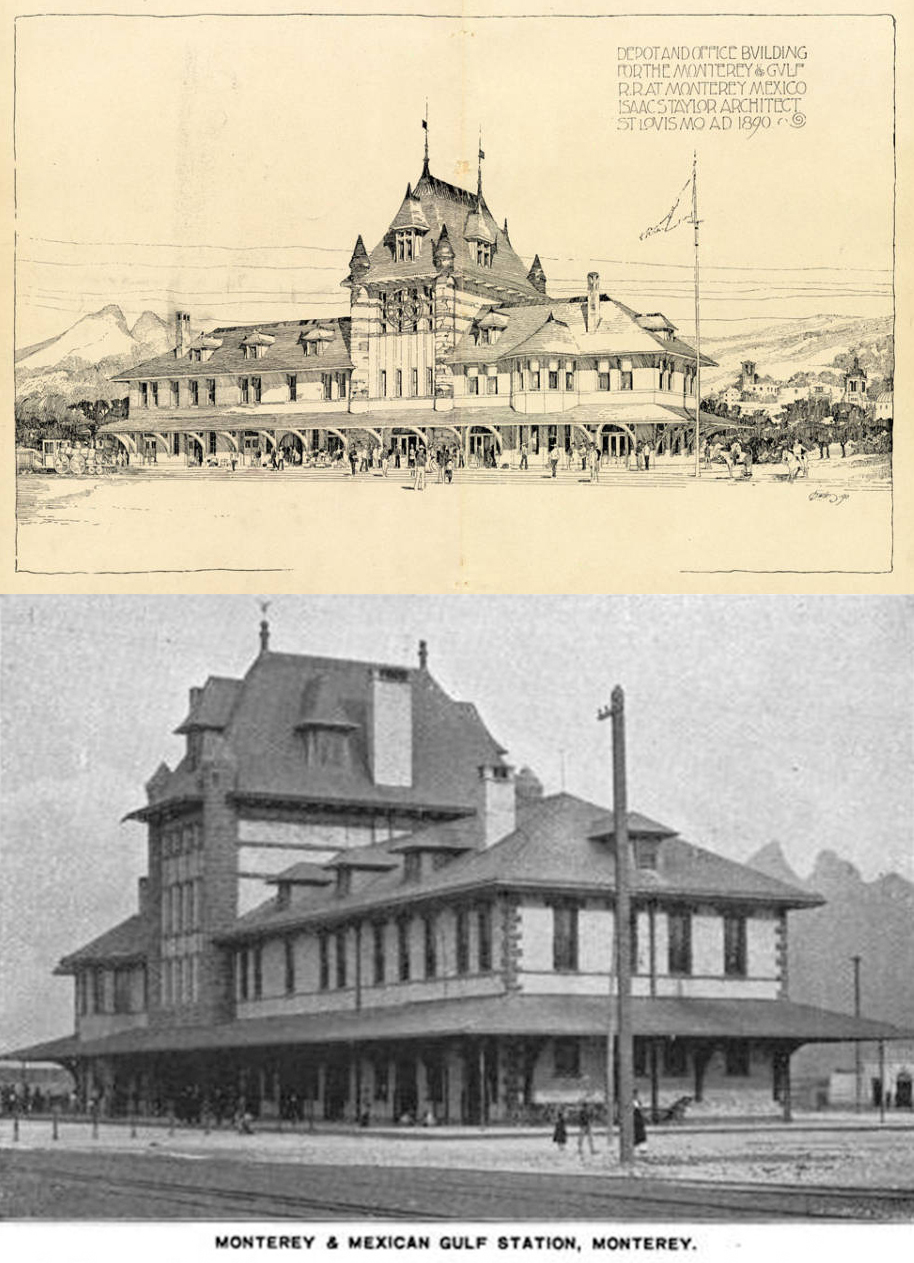 Original published drawing, 1890, and 1899 photo of the Monterey and Gulf Railroad Depot, Monterrey, Mexico, designed by Isaac S. Taylor.